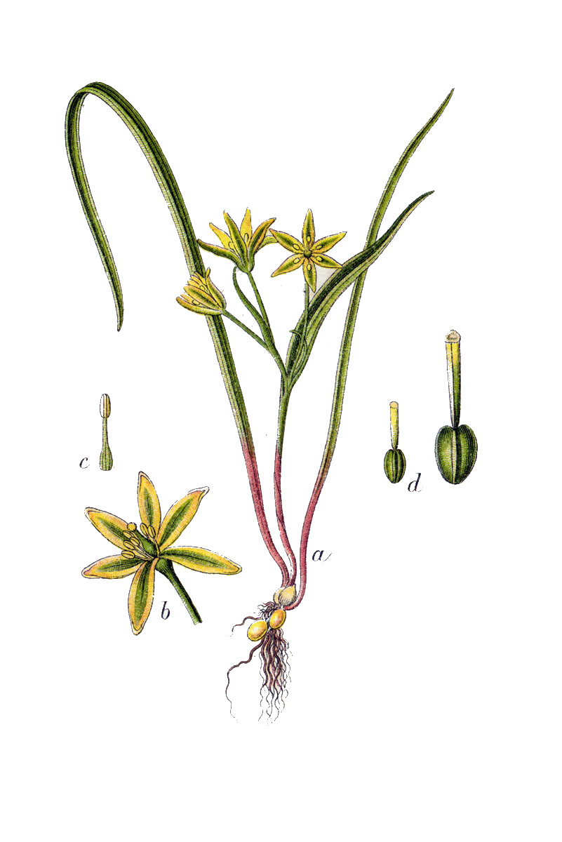 Gagea pratensis Fig. from book